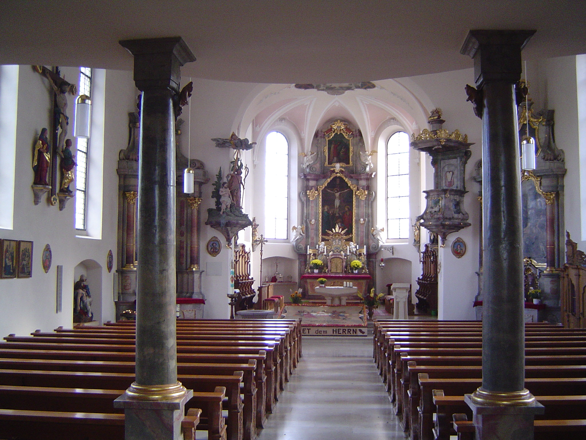 The church of Nendingen.